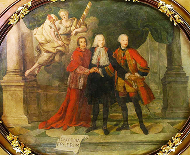 Sebastiao José Carvalho e Melo, Marquês de Pombal, surrounded by his brothers: Monsignor Don Paulo de Carvalho e Mendonça and Don Francisco Xavier de Mendonça e Furtado. Roof of the Hall of Concord of the Palace of the Marquis of Pombal, Oeiras.